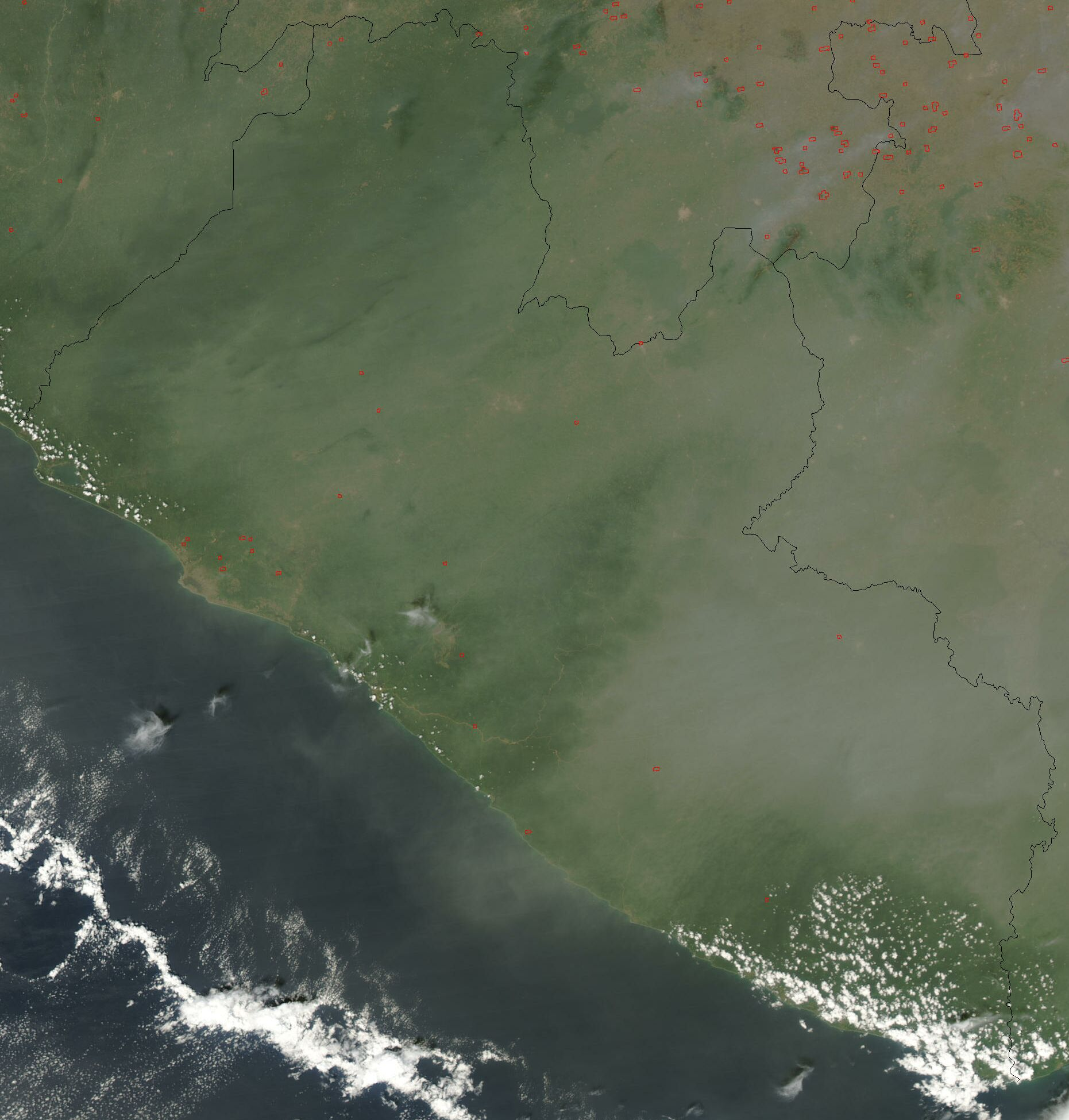 Satellite image of Liberia in January 2003.